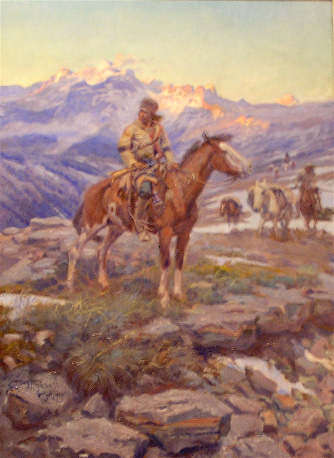 "Free Trappers" oil, 1911, C.M. Russell, Montana Historical Society MacKay Collection, Helena, MT